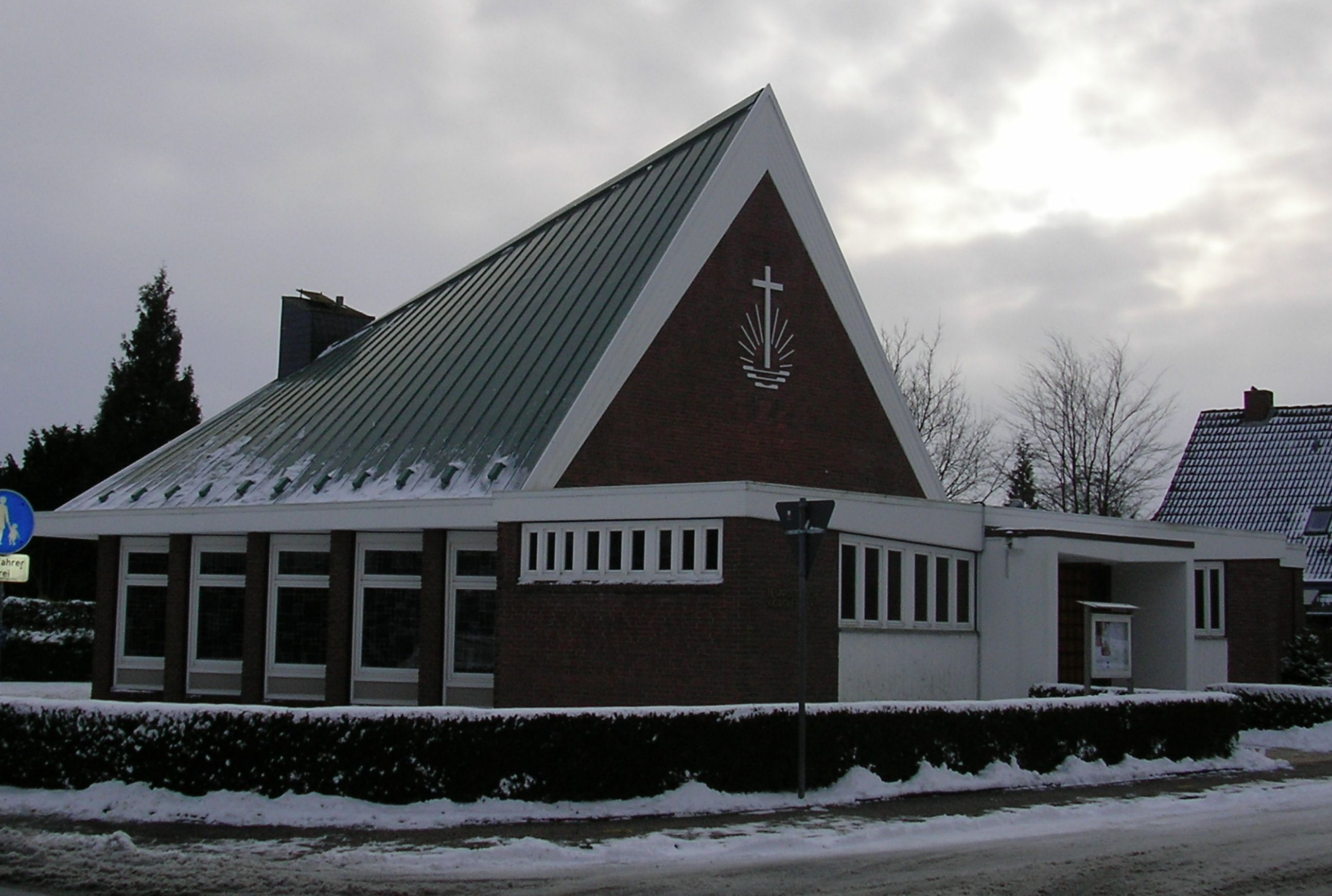 Wittmund, Former New Apostolic Church